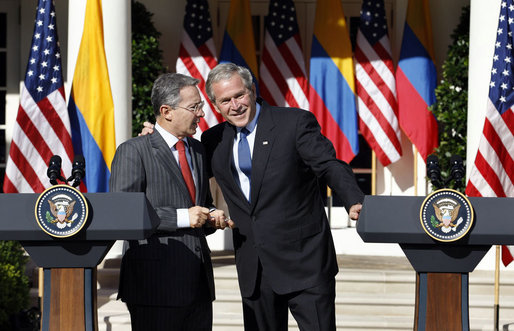 The President of the United States George W. Bush with The President of the Republic of Colombia Álvaro Uribe in the White House